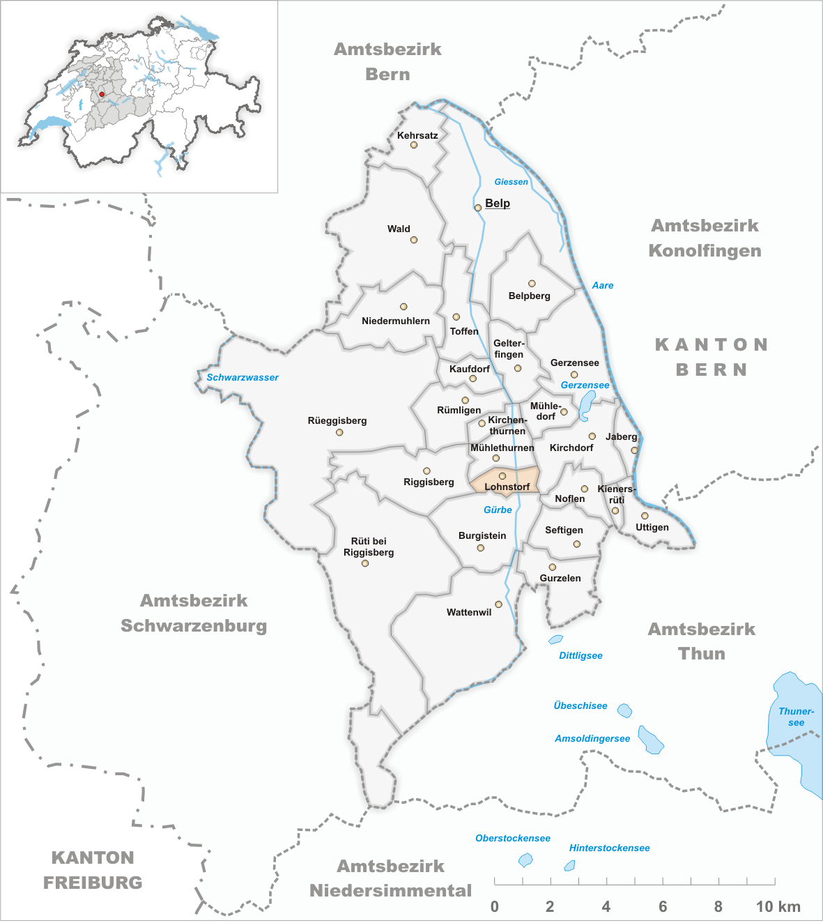 Municipality Lohnstorf